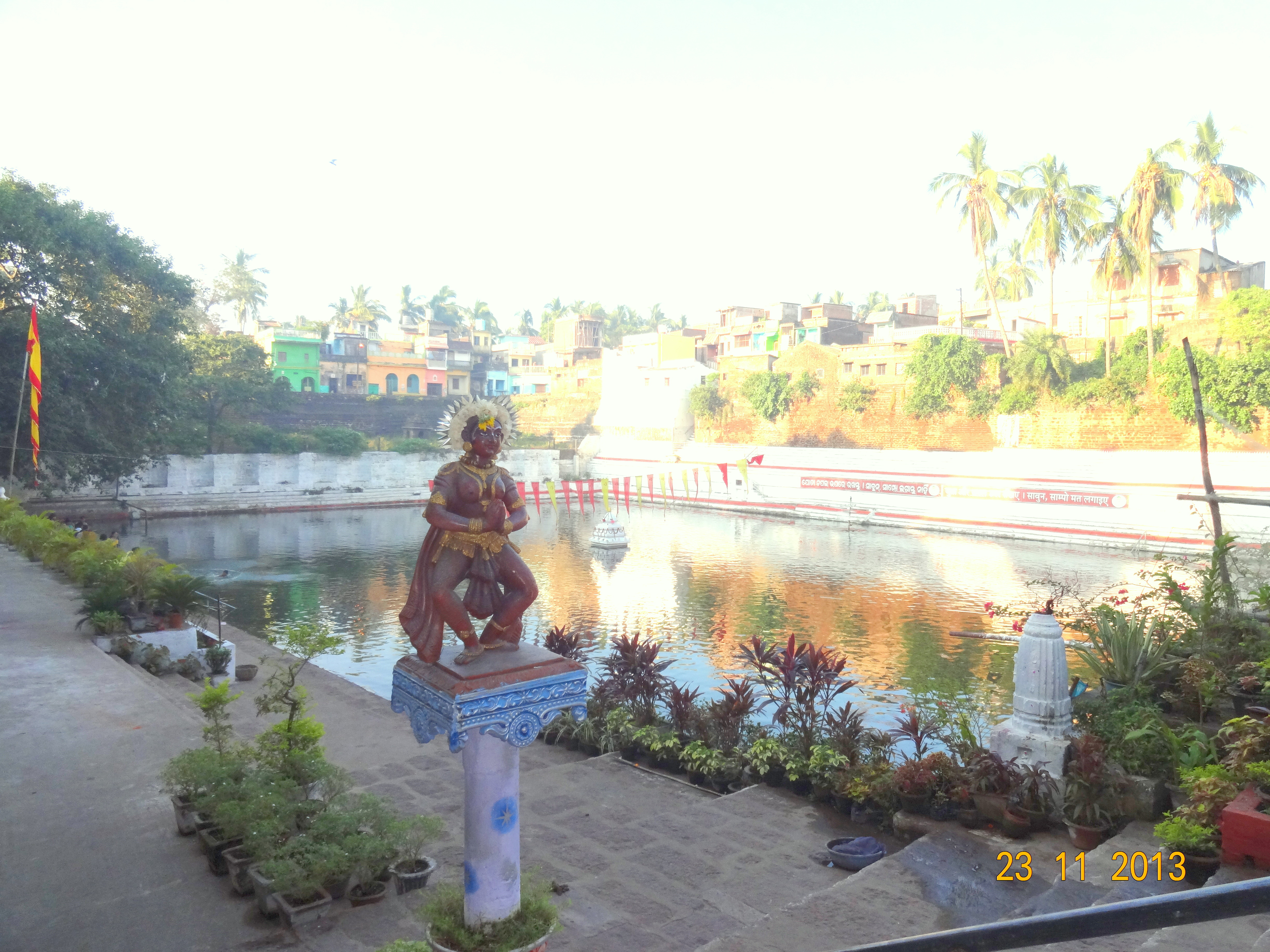 Swetaganga Pushkarani, Puri, Odisha